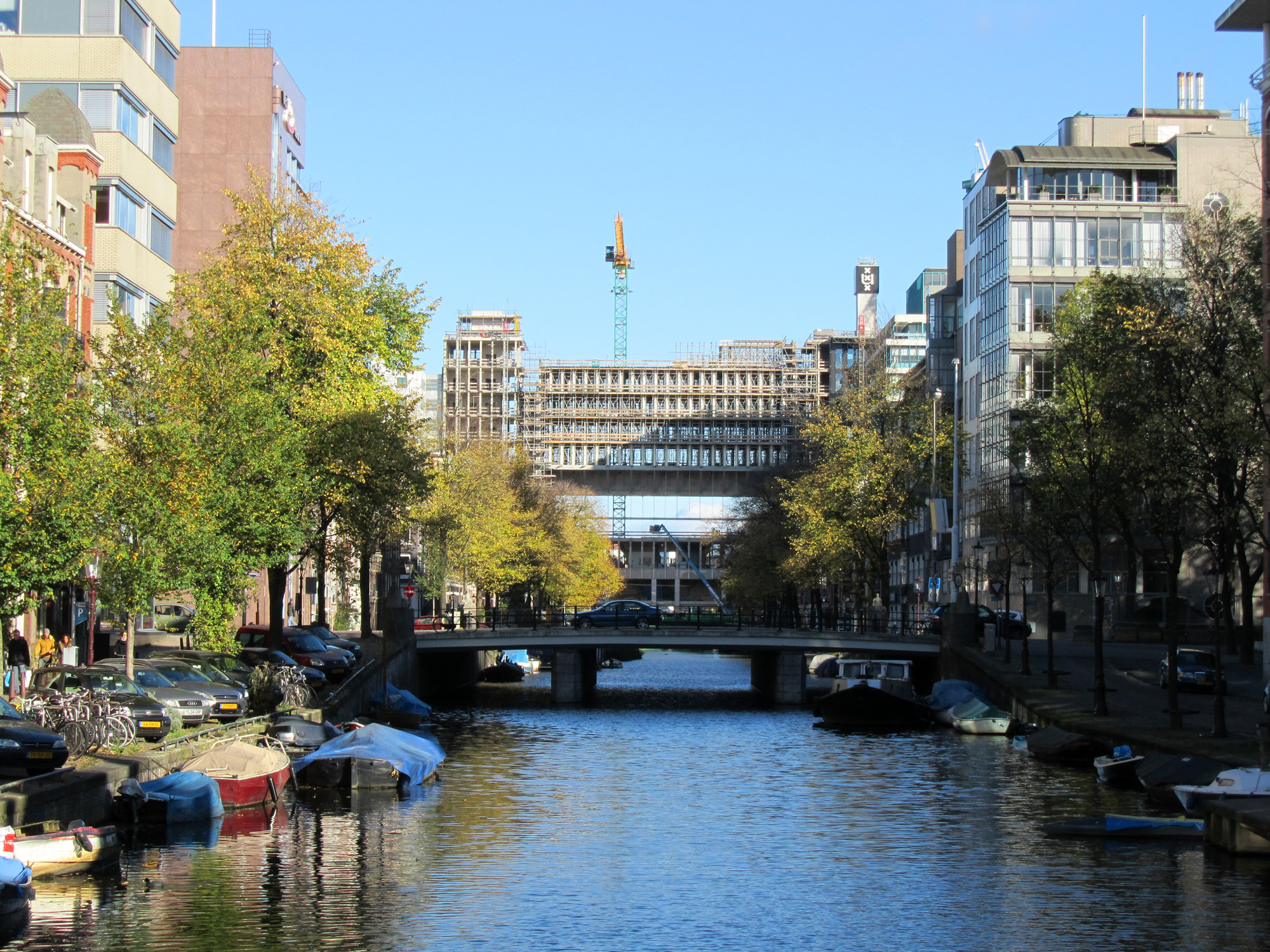 Nieuwe Achtergracht canal in Amsterdam, looking east towards the University of Amsterdam campus under reconstruction on Roeterseiland. The new building will span the canal.